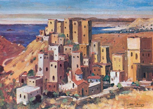 The picture depicts Costas Koutsouris artwork of Mani tower houses, 1983 in Mani Peninsula, south Peloponnese. Oil on canvas, dimensions 37cmx50cm unframed. This is a 2nd period work of the artist.